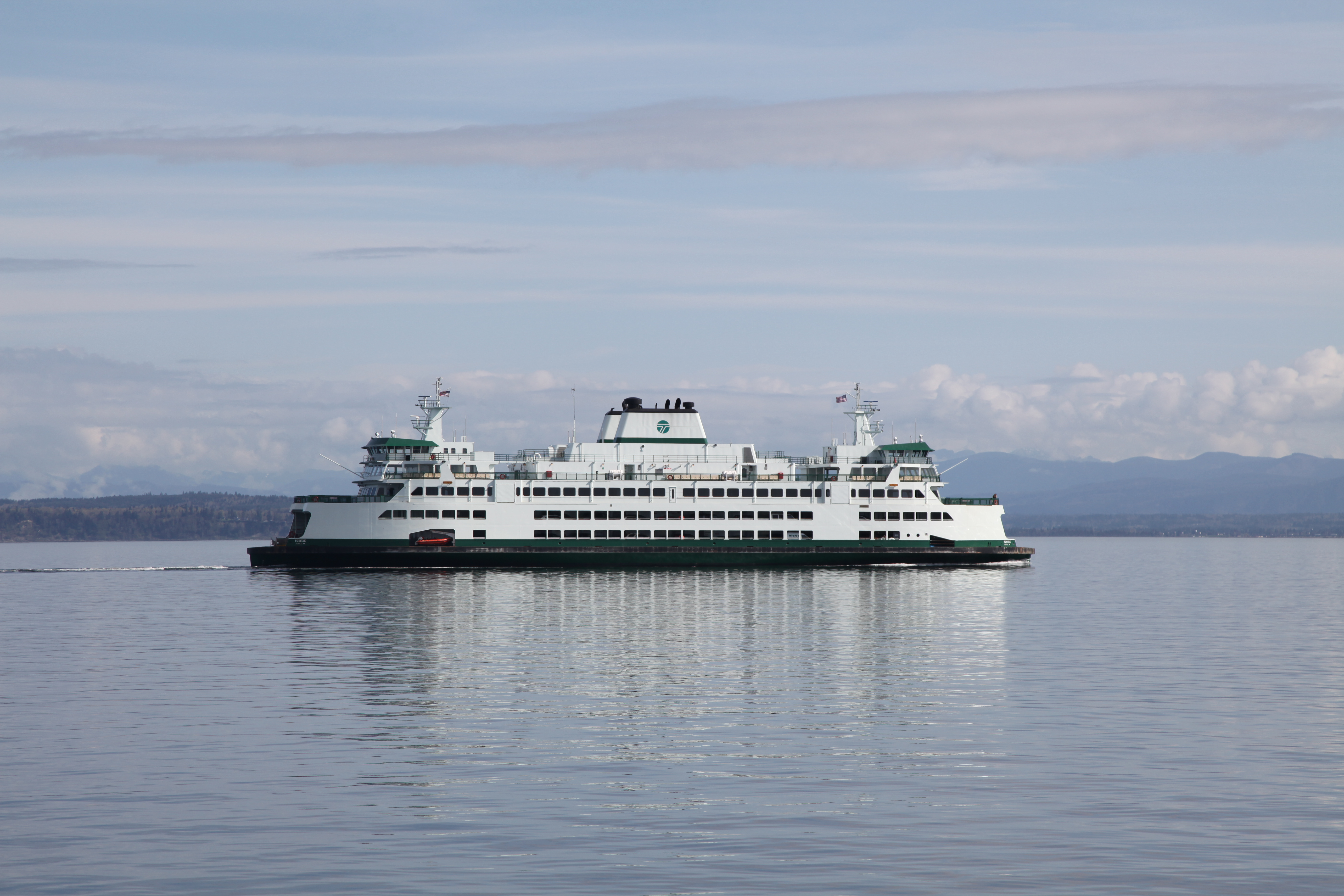 Tokitae ferry between Mukilteo and Clinton